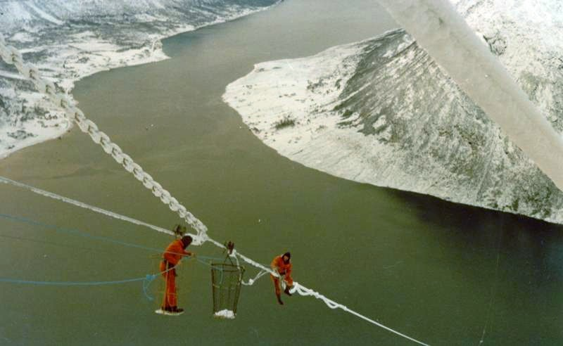 Maintenance of Omega antenna in Lurøy